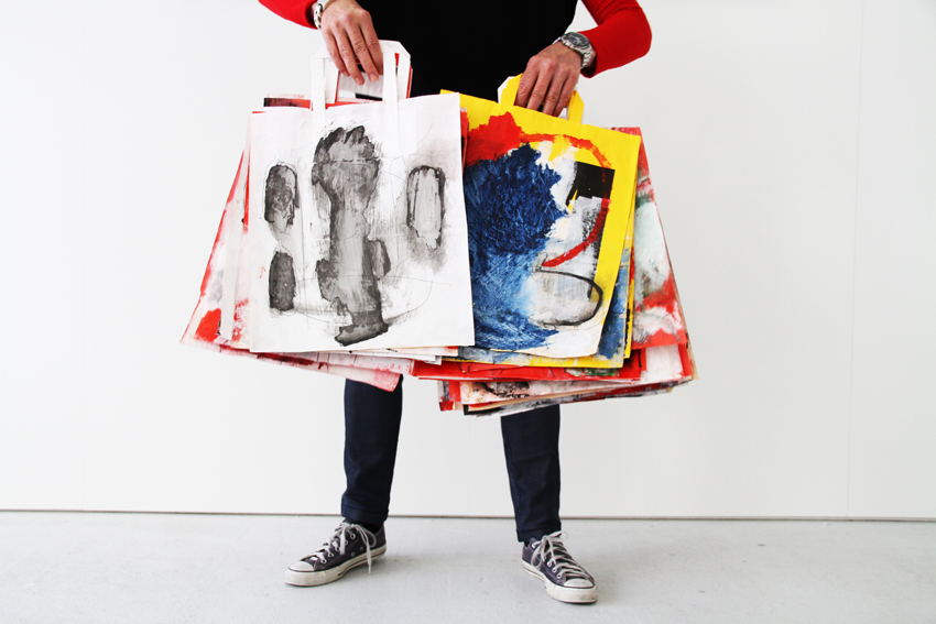 nina staehli paper bag paintings berlin